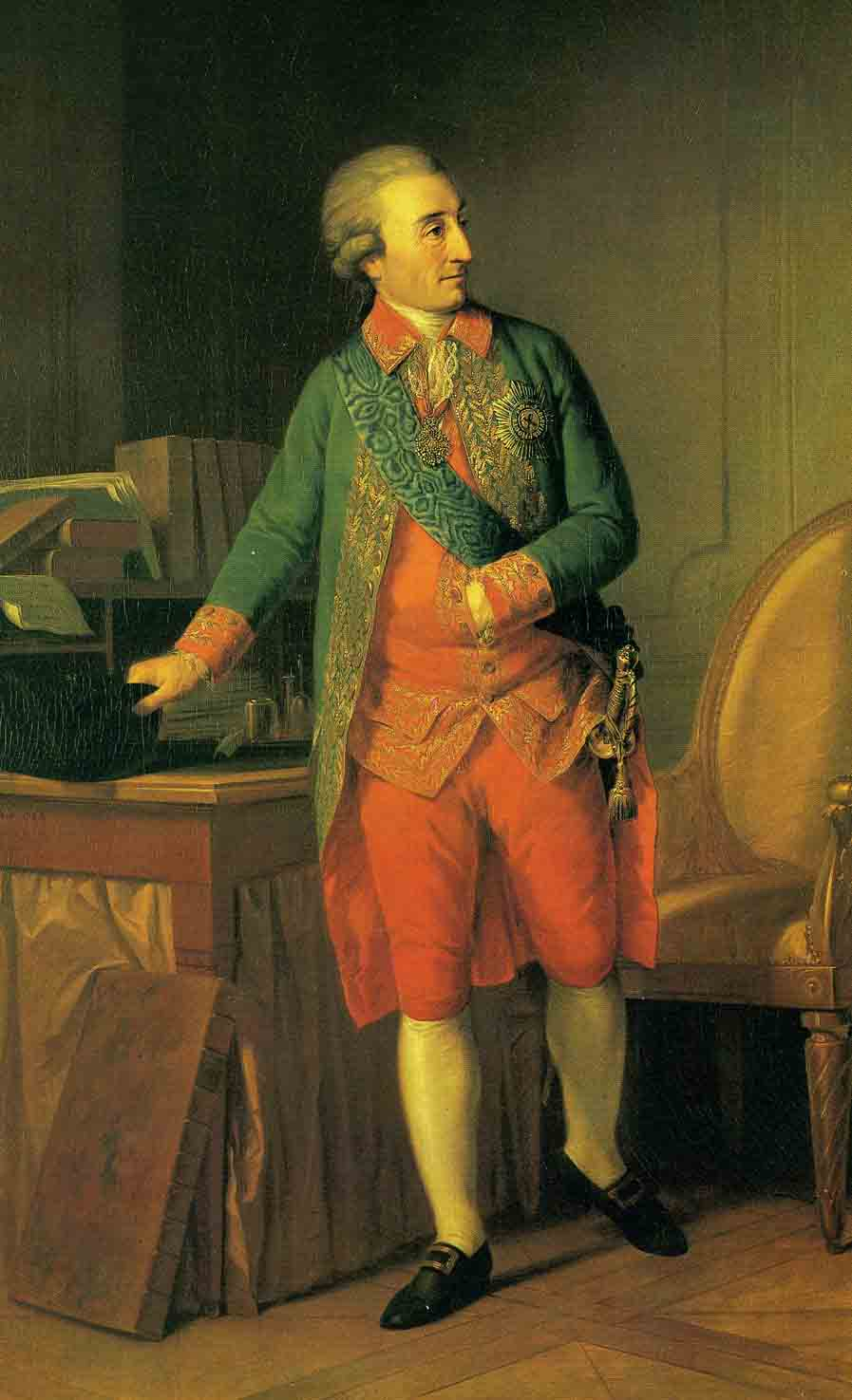 Portrait of Prince Nicolai Saltykov (1736-1816), russian general-feldmarshal